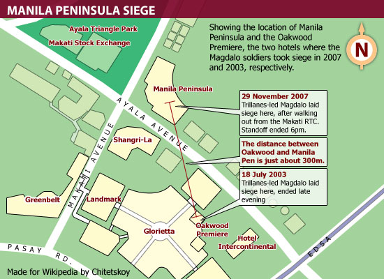 Location of Oakwood Premiere Hotel and the Manila Peninsula, the two theaters of Magdalo mutiny of 2003 and 2007